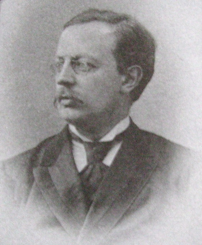 Picture of Vilhelm Lundström, Swedish professor and politician